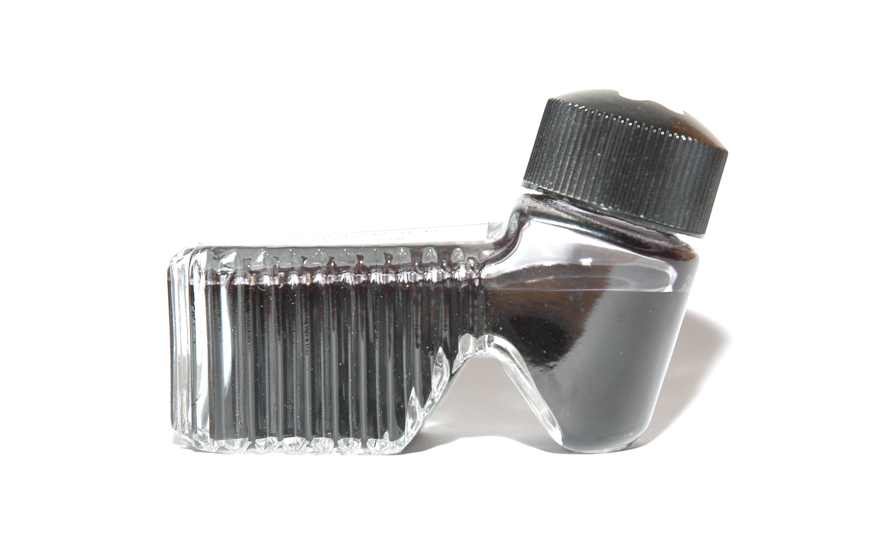 An inkpot of Mont Blanc with black ink.